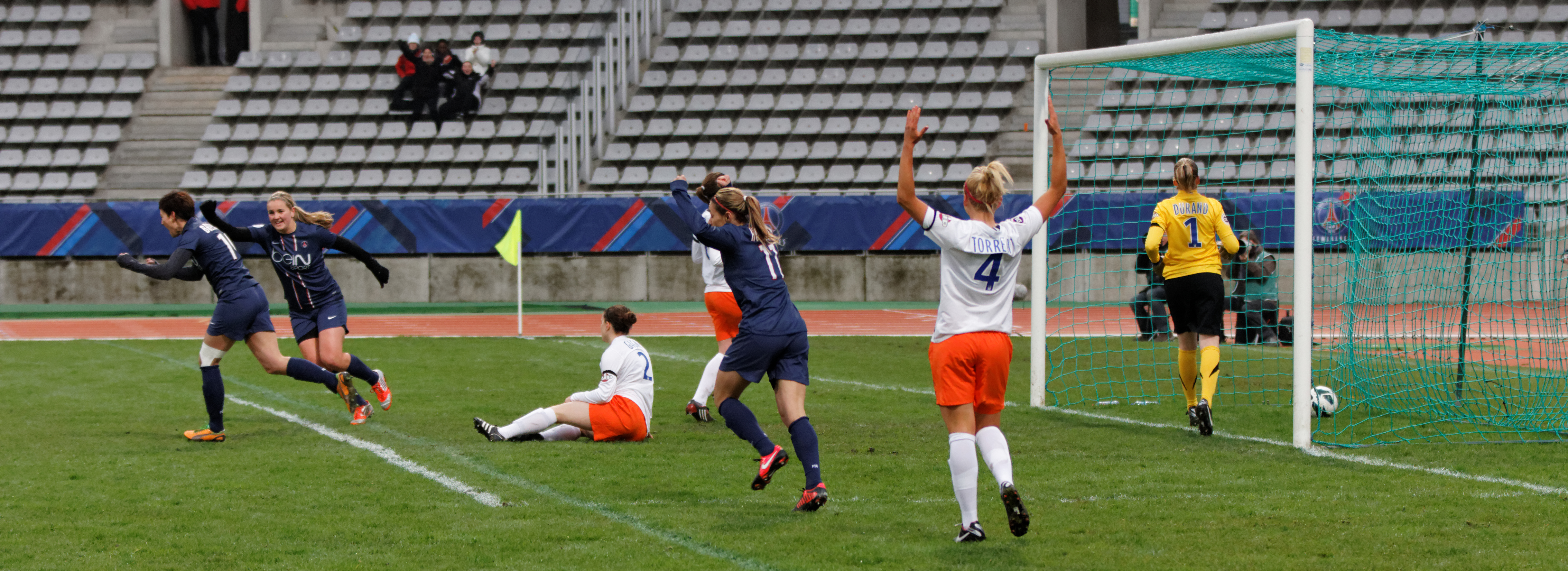 PSG-Montpellier, January 13th, 2013. Goal from Linda Bresonik.